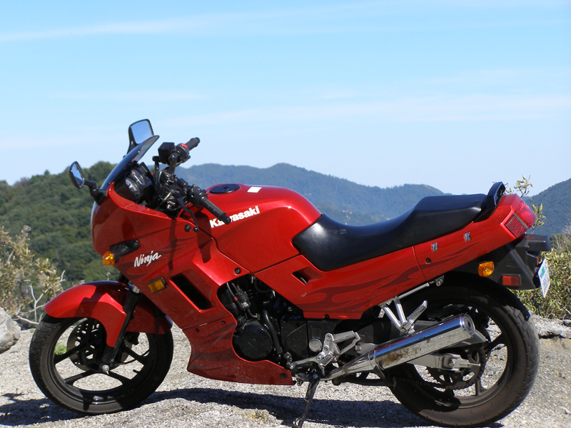 2006 Kawasaki EX250-F19, side view.